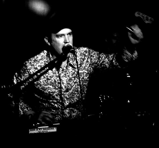 Jim Neversink playing at Mojo, Copenhagen February 2010 SkaraB 20:35, 19 February 2010 (UTC)